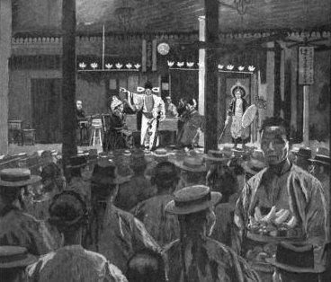 Cropped from sketch of scene in Chinese Theater, New York, published in Century magazine 1896